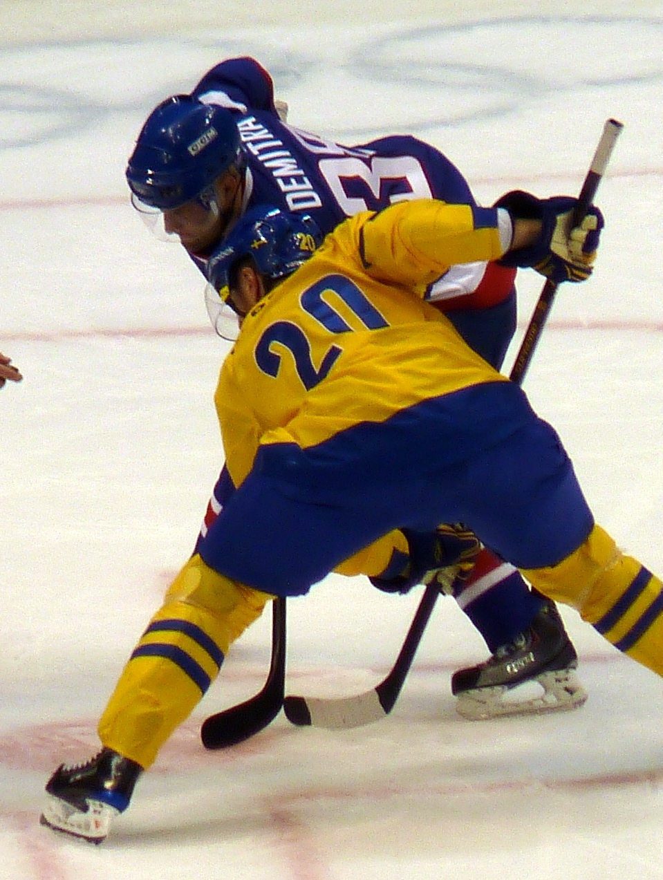 Centres Henrik Sedin of Sweden and Pavol Demitra of Slovakia faceoff during the 2010 Winter Olympics.